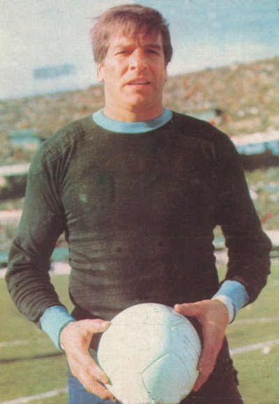 Antonio Roma during his run on Boca Juniors